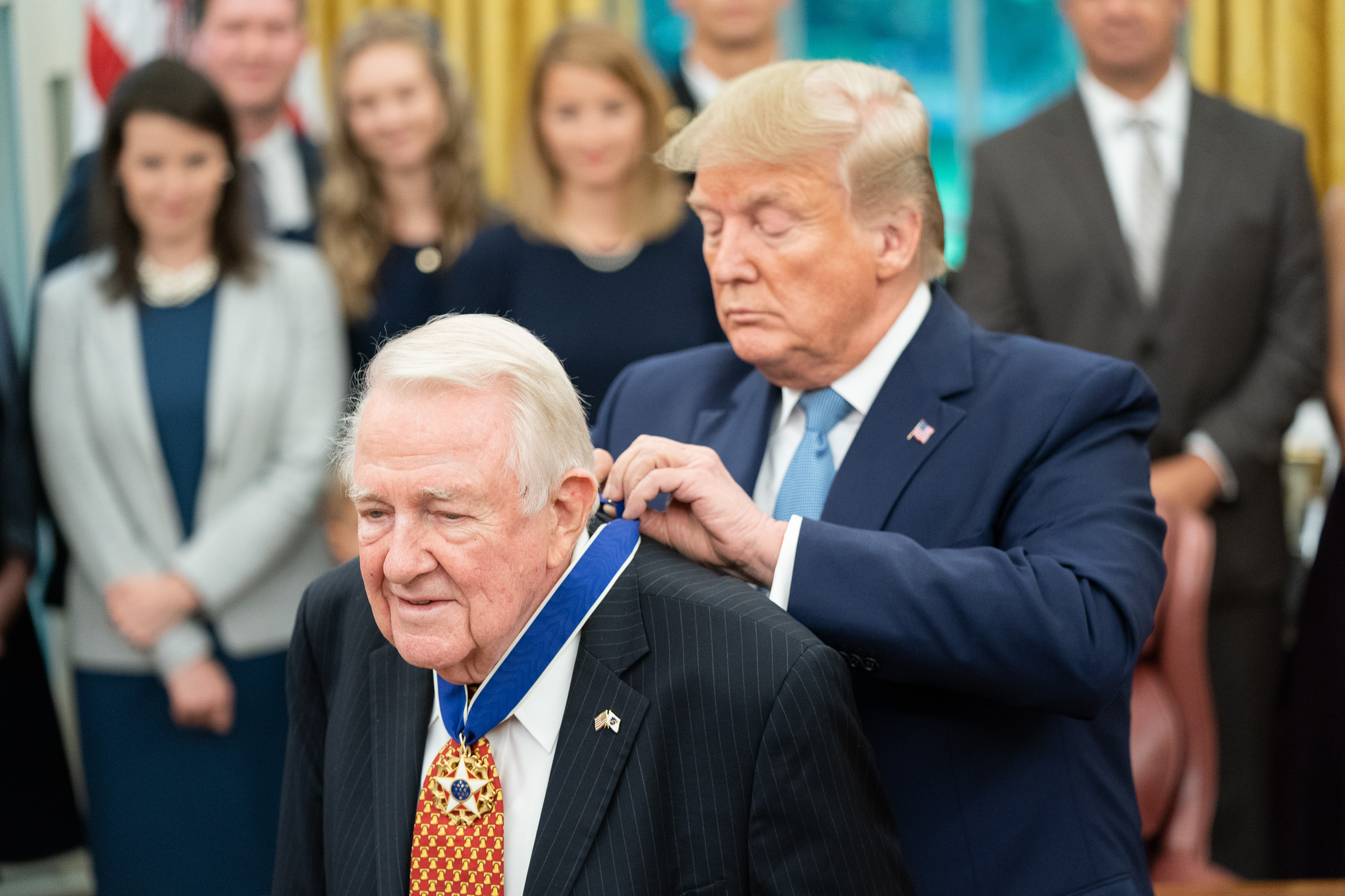 President Donald J. Trump presents the Presidential Medal of Freedom, the nation’s highest civilian honor, to former Reagan administration Attorney General Edwin Meese III, Tuesday, Oct. 8, 2019, in the Oval Office of the White House. (Official White House Photo by Shealah Craighead)